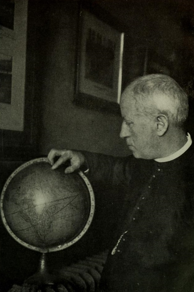 Portrait of José María Algué